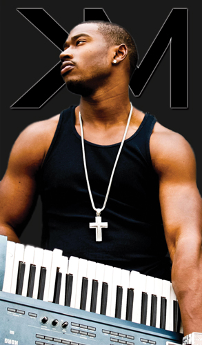 2010 Photo Shoot